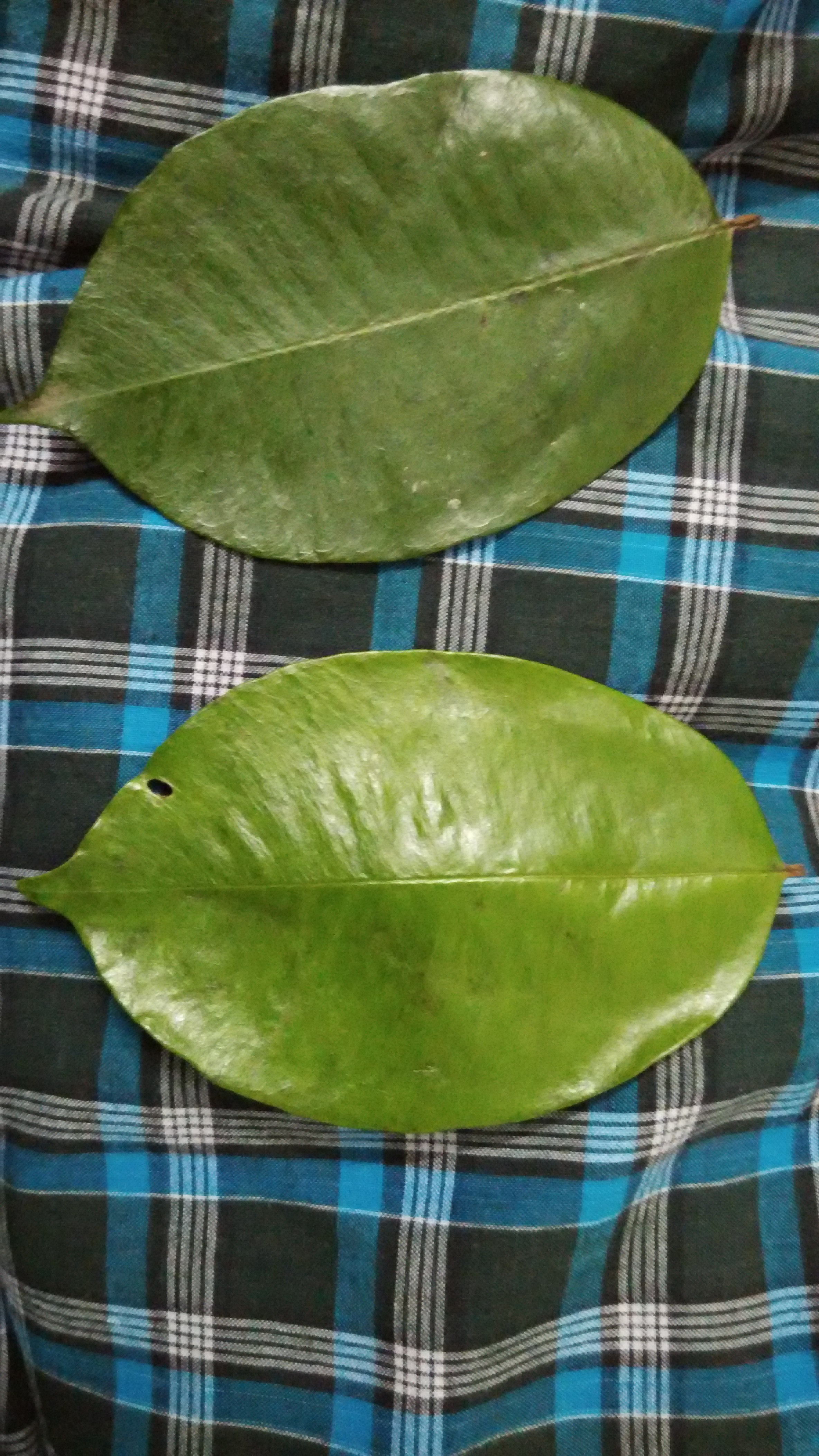 leaf of star apple